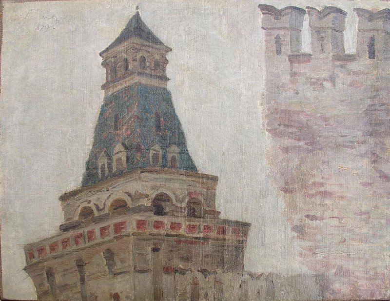 Kremlin wall (study by Vasily Surikov, 1879)